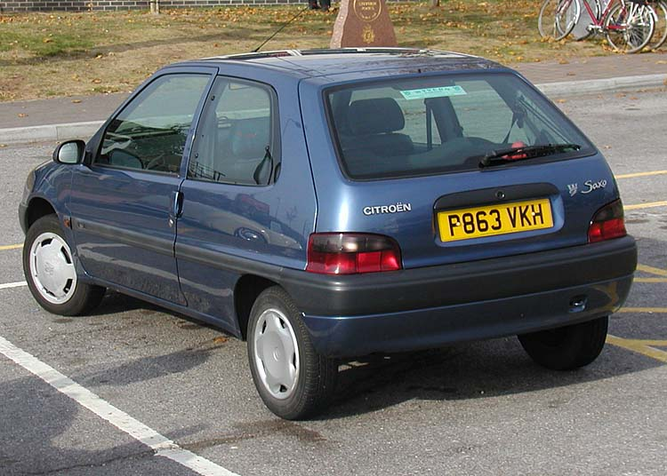 1996-registered Citroen Saxo, seen in Bristol (England) in October 2003.